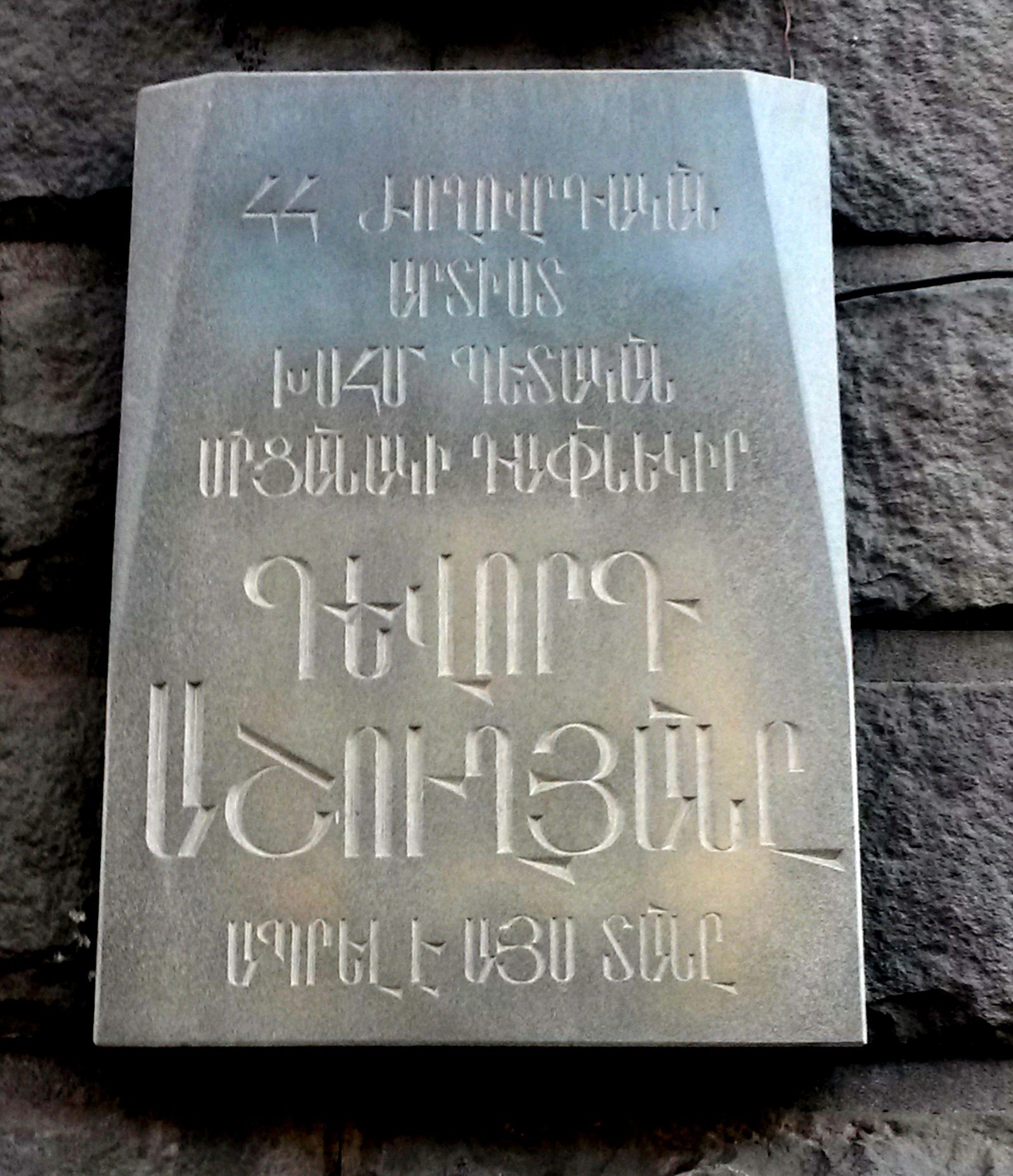 Gevorg Ashughyan's plaque